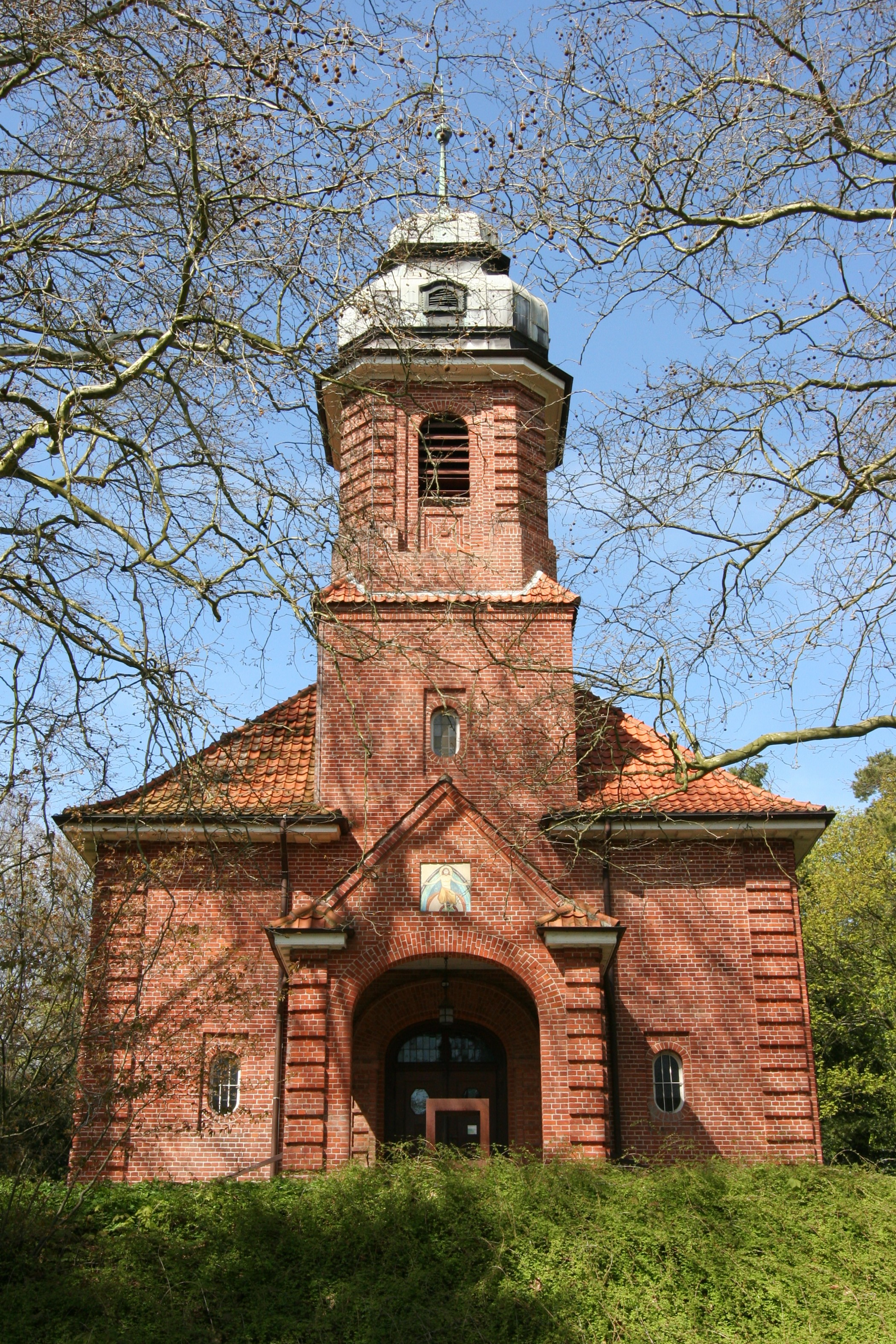 The hospital church of the Klinikum am Weissenhof in Weinsberg from the South